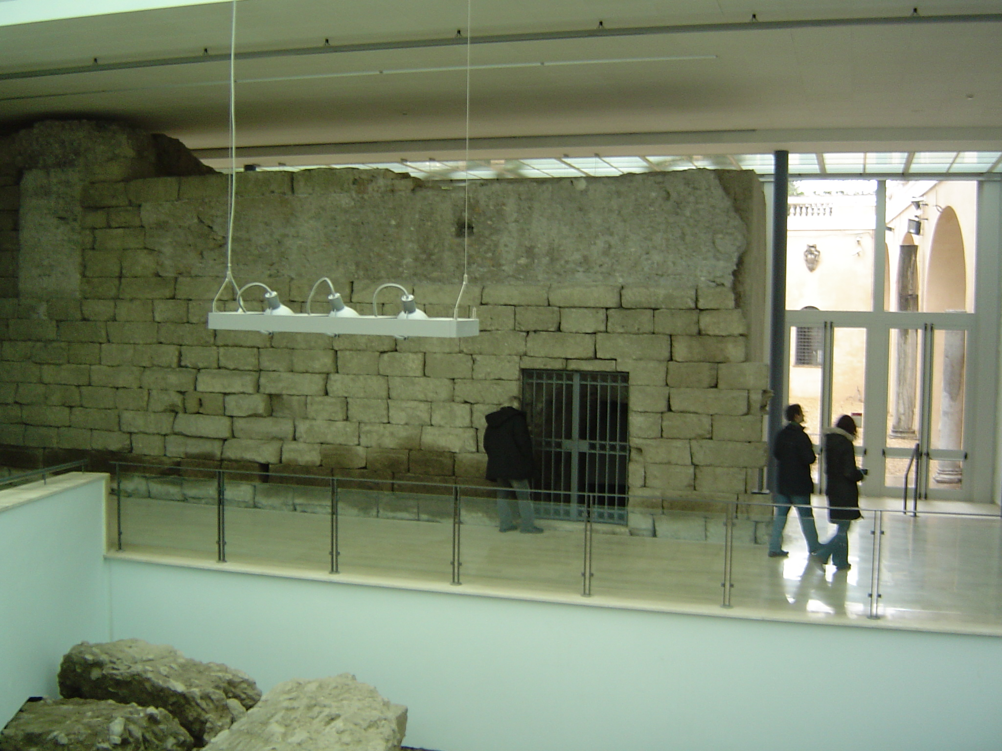 The foundations of the temple of Jupiter Optimus Maximus on the Capitoline hill in Rome. Made by Joris on 29-12-2005